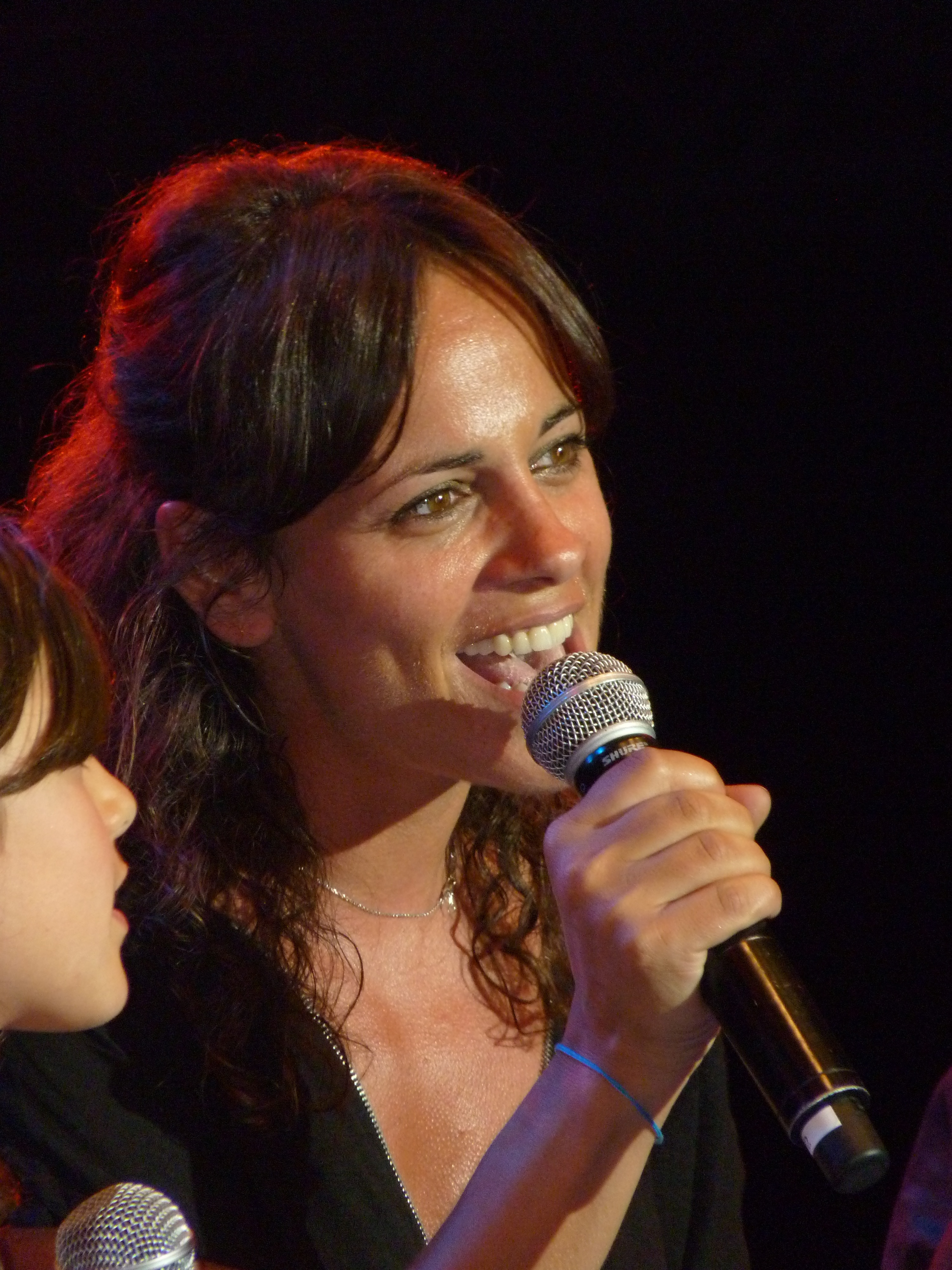 Koxie performing at La Nuit des Hits of Juan-les-Pins for Enfant Star & Match association.